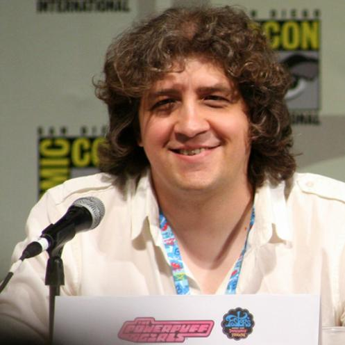 Cartoonist Craig McCracken at Comic Con 2008.